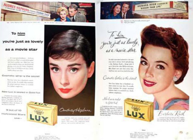 Lux - Romancing the brand